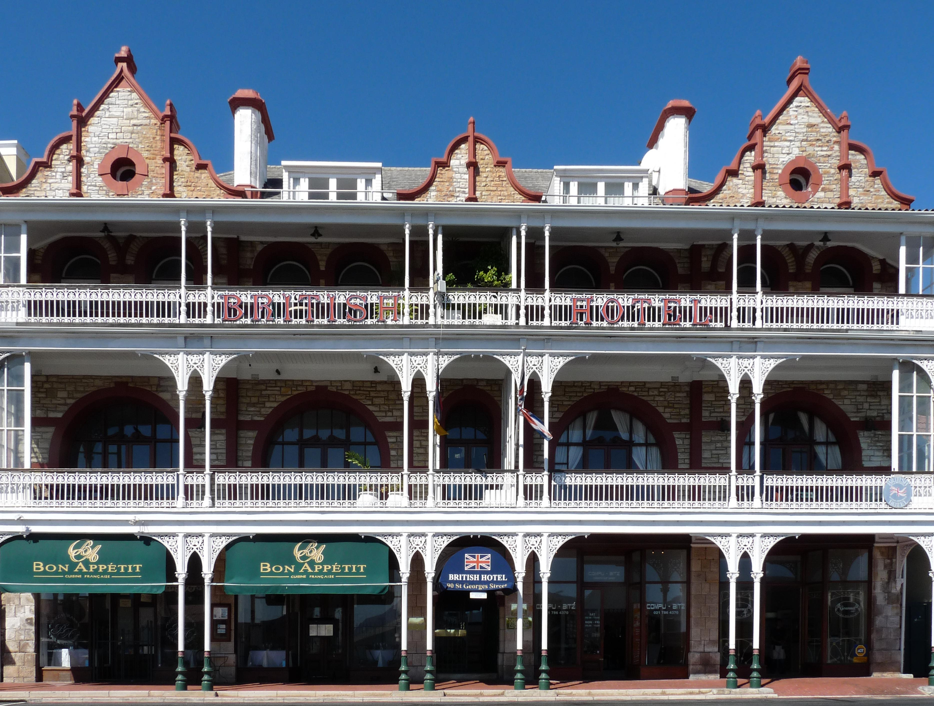 Simonstown 02